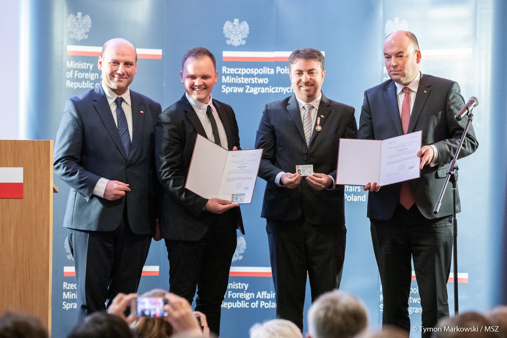 Minister Szymon Szynkowski vel Sęk i poseł Jan Dziedziczak podczas wręczenia pierwszej Karty Polaka dla przedstawiciela Polonii w Brazylii